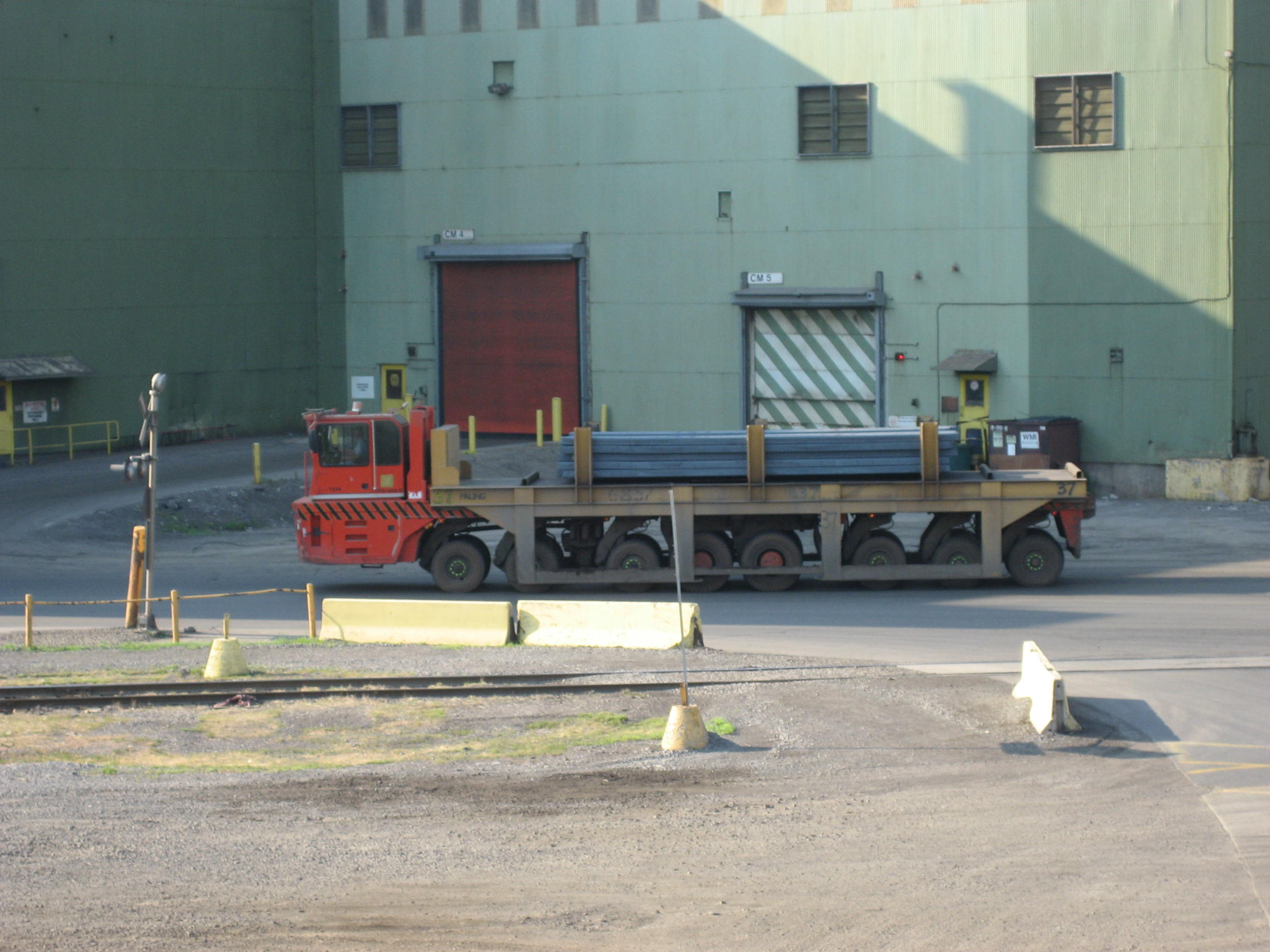 North End Industrial walking tour, Burlington Street, Hamilton, Ontario